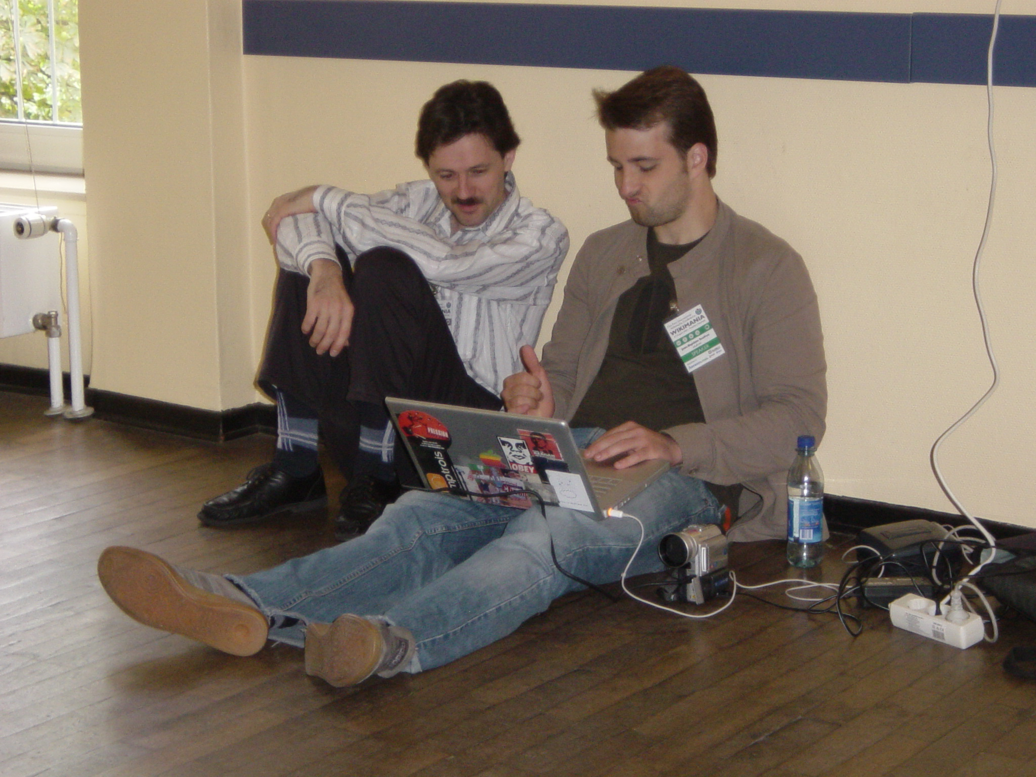 Speaker Jean Baptiste Soufron (right) having a break with Yann Forget